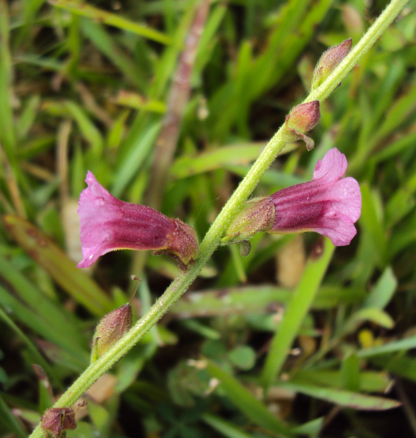 Centranthera indica